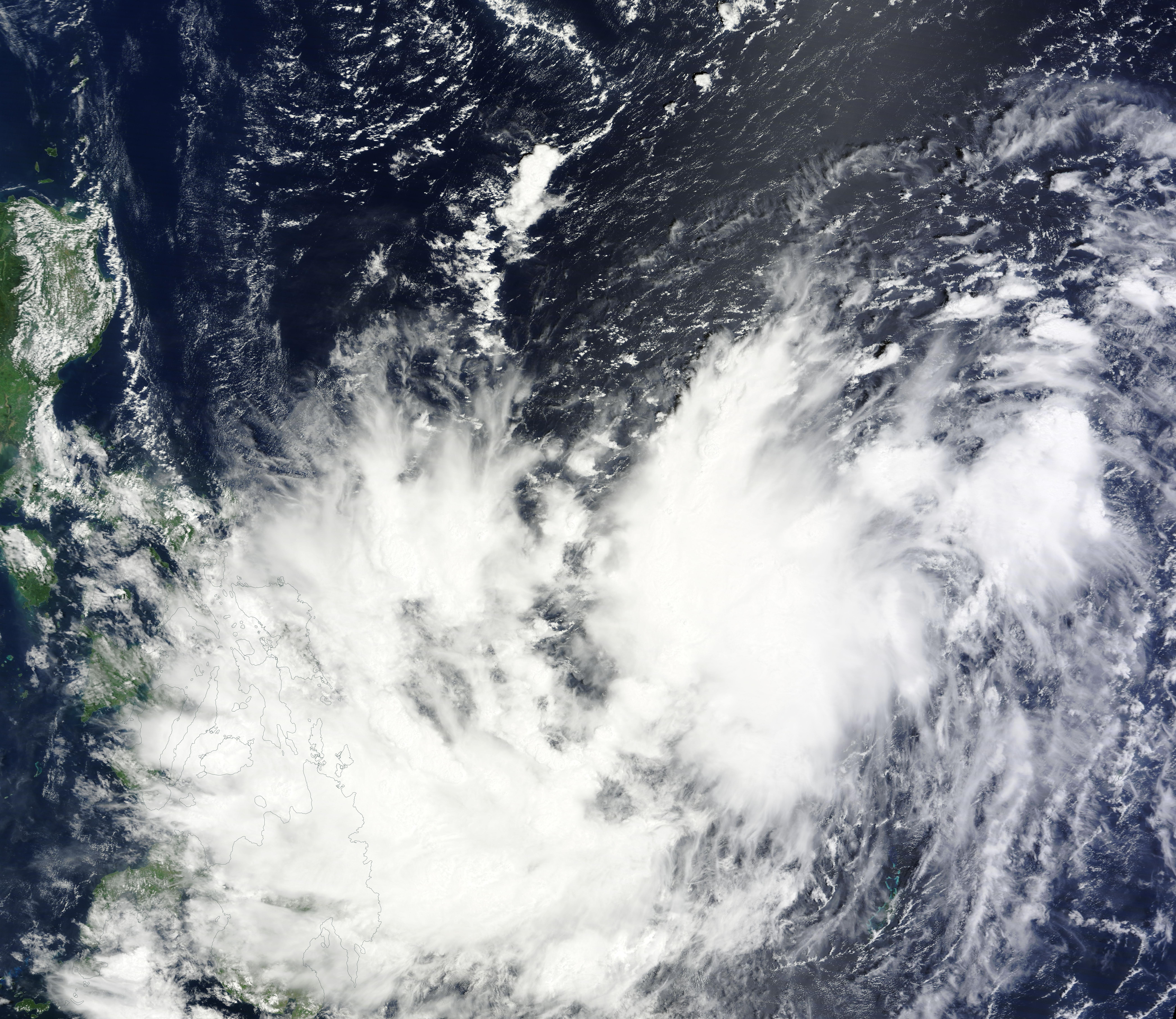 Tropical Depression Mario on September 17, nearly the same time JTWC classified it as 16W